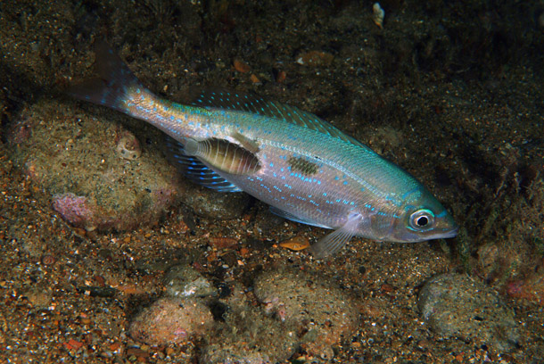 Spicara flexuosa with Anilocra photographed in Tuscany (Italy). Photo by Stefano Guerrieri.